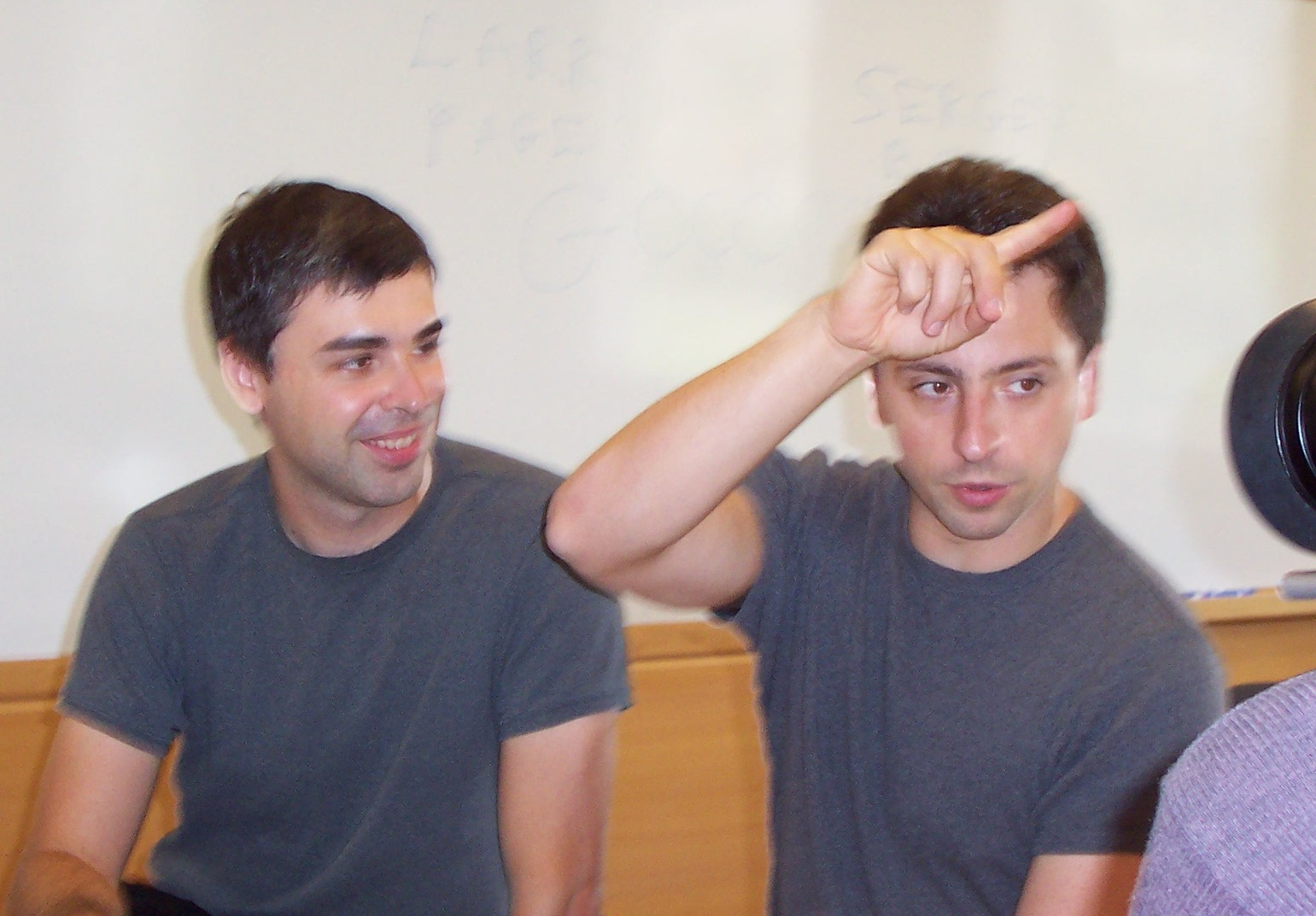 Larry Page and Sergey Brin, founders of Google Inc.